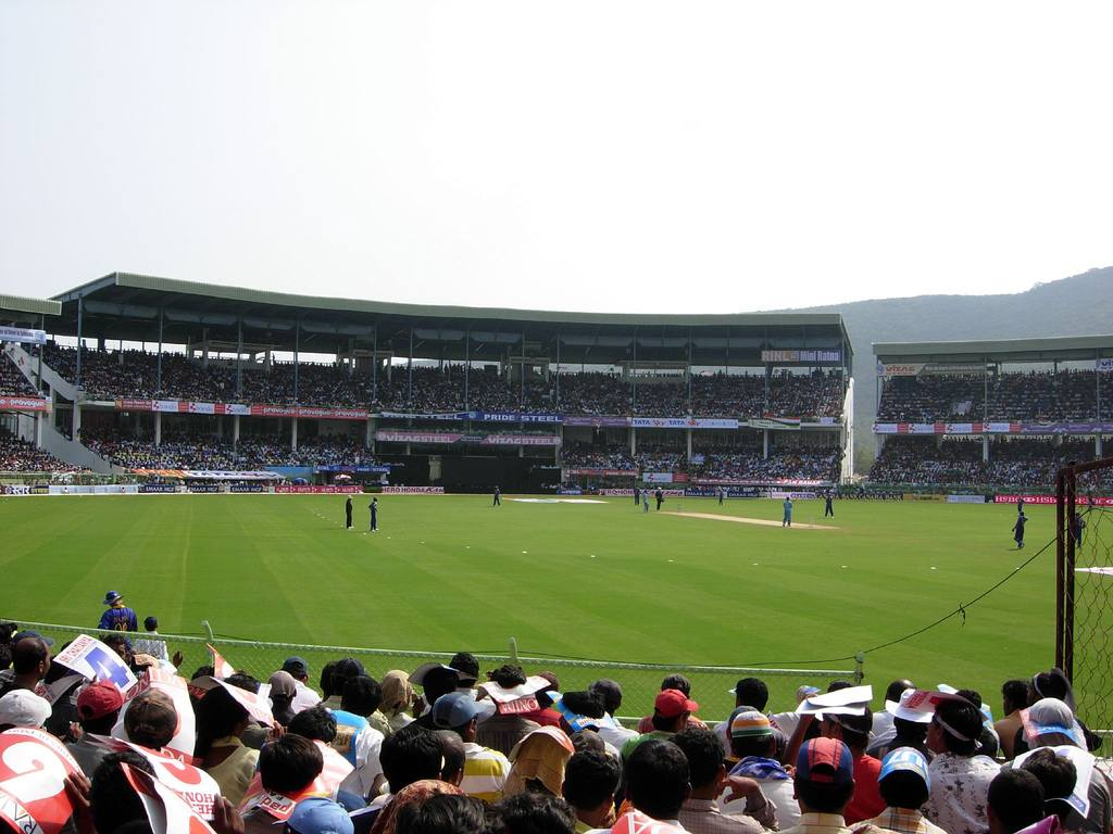 Rajashekar Reddy-ACA-VDCA stadium at Madhurawada hosting the India-Sri Lanka ODI.